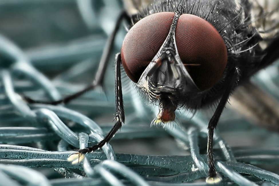 Facettenaugen einer normalen Fliege / compound eyes of a normal fly